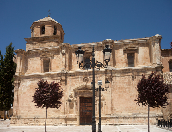 Iglesia parroquial (Iglesia de la Inmaculada Concepción); Huelma, Andalucía, Jaén, Spain; ; ref: PM_091232_E_Huelma; ; Photographer: Paul M.R. Maeyaert; © Paul M.R. Maeyaert; ; Cultural heritage; Europeana; Europe/Spain/Huelma